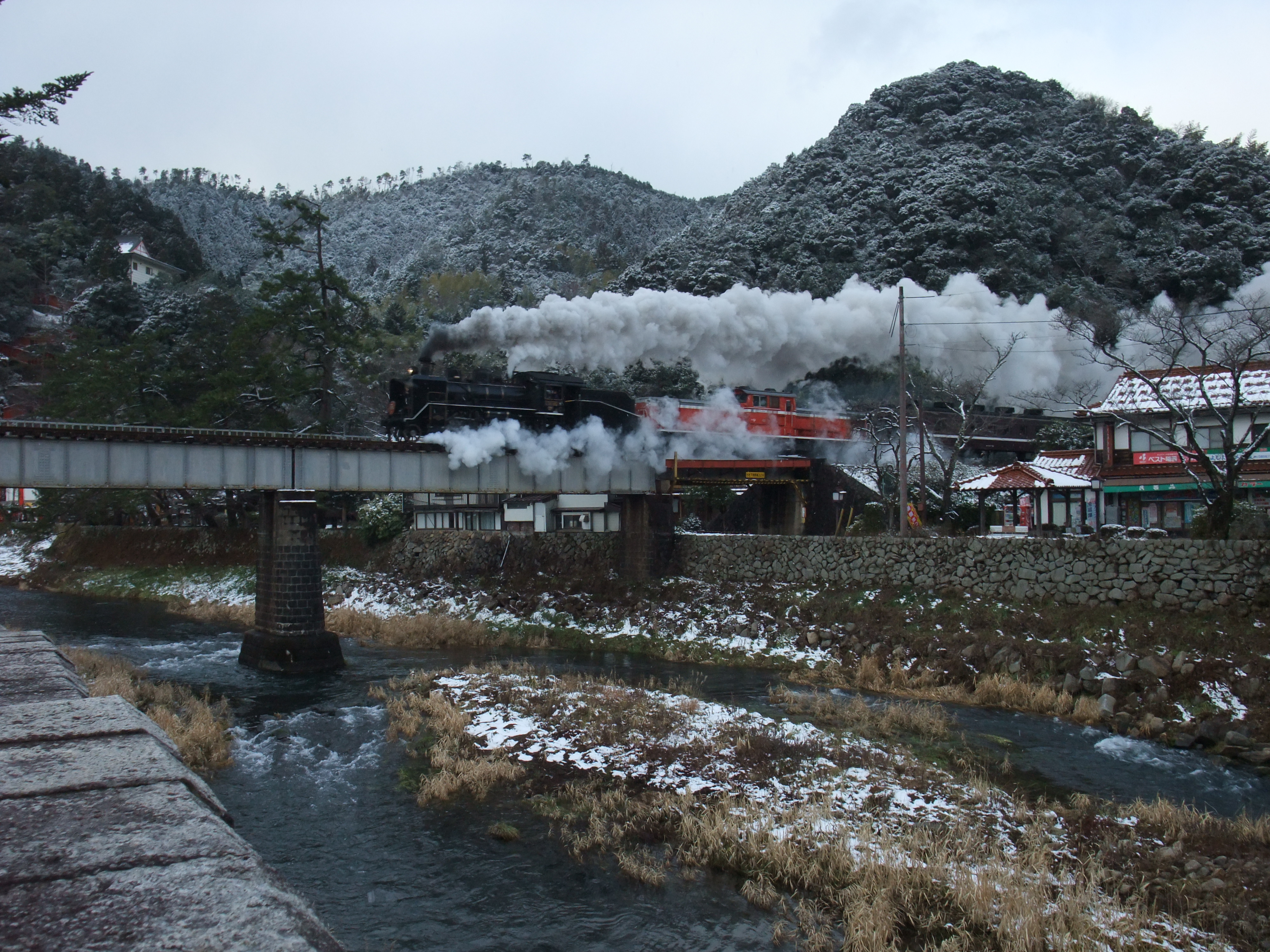 SL Tsuwano Inari 2013.